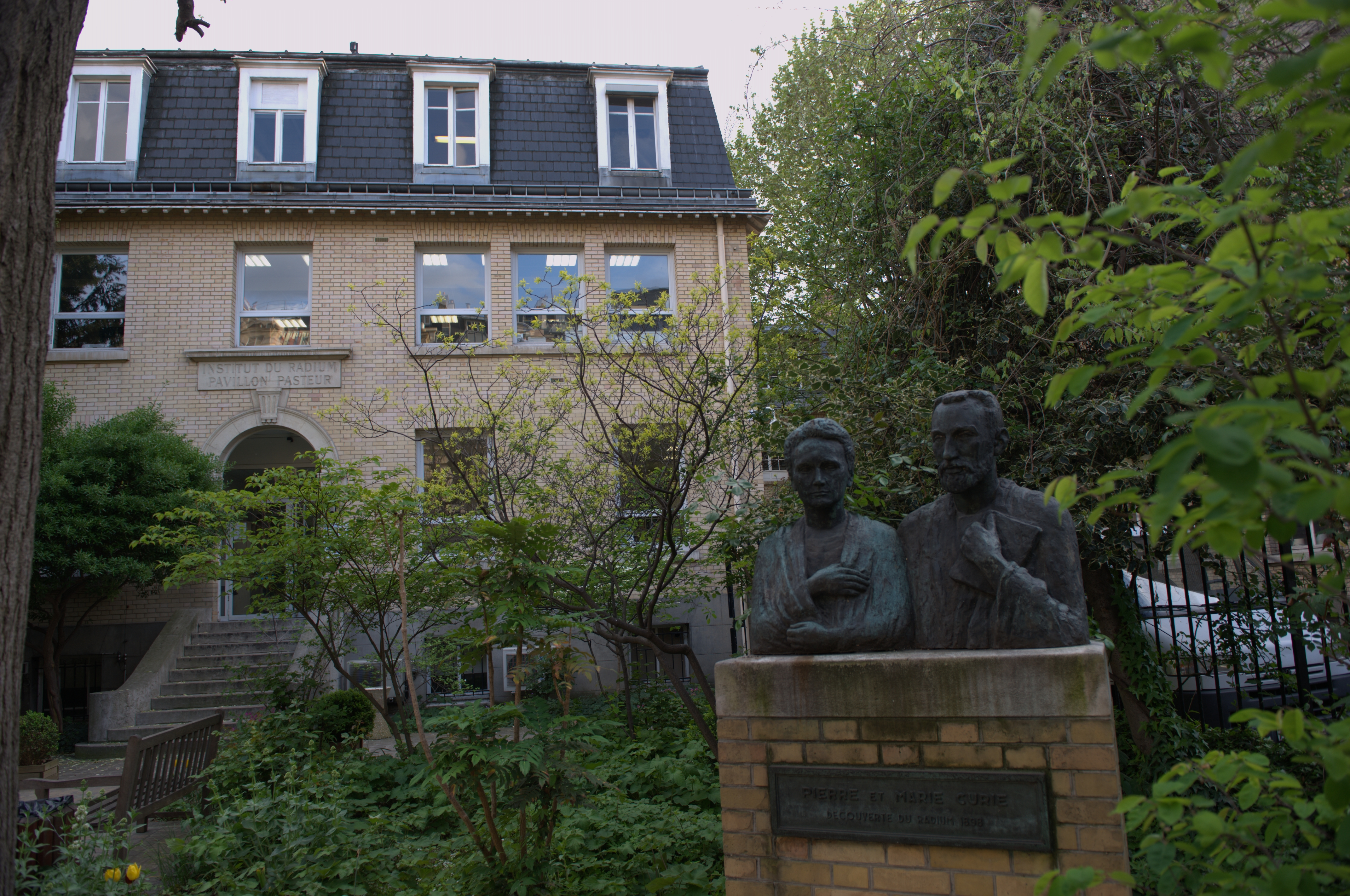 Pavillon Pasteur, Institut Curie, Paris